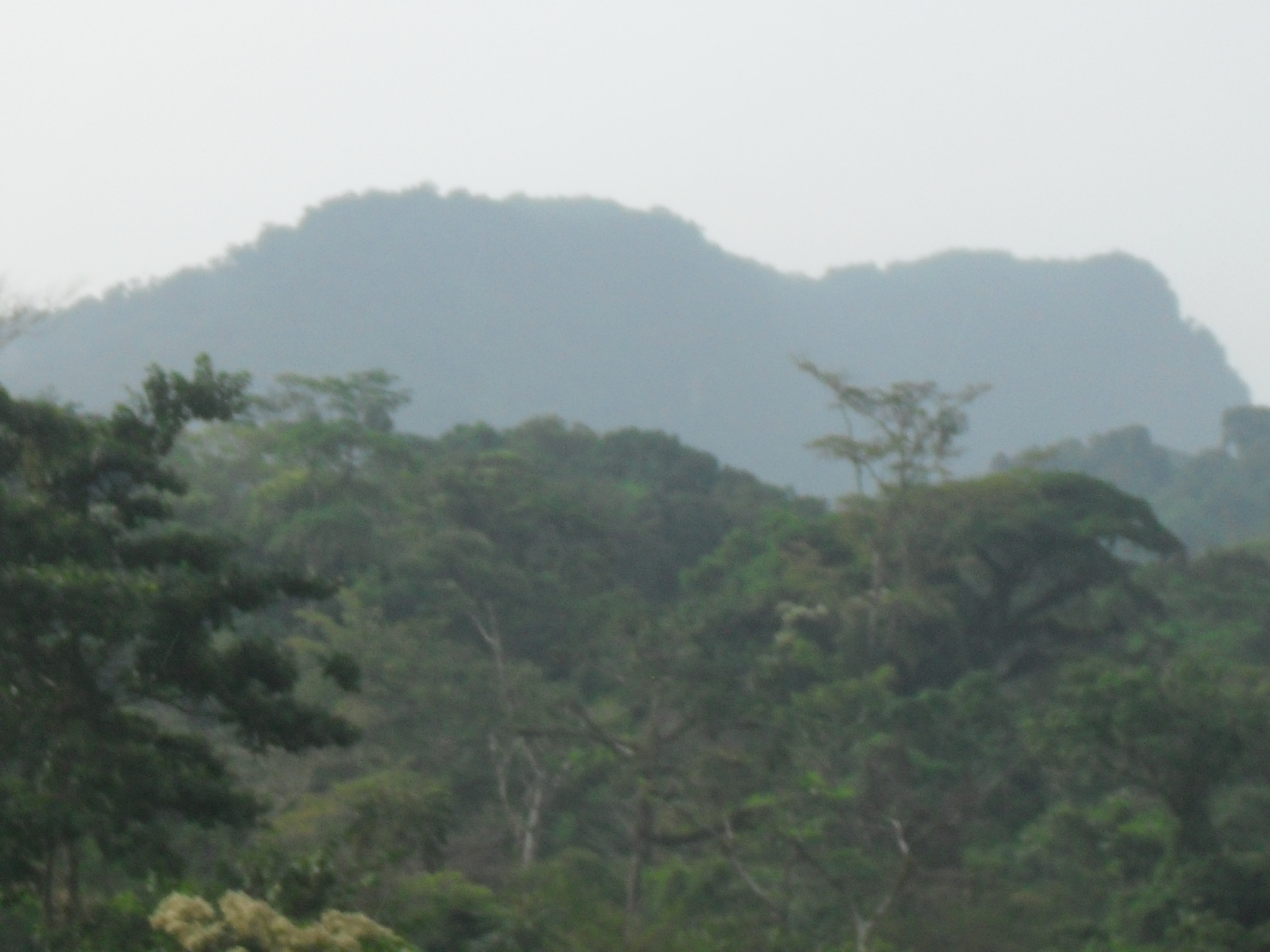 Rata Mountain (Peak of Rumpi Hills) as seen from Mofako Balue, Ndian division of Cameroon. Source: Beckline Mukete Photos, January 2016.